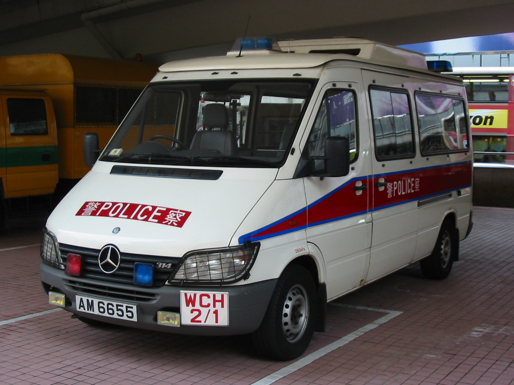 User:Wrightbus拍攝。 A Hong Kong Police vehicle MB Sprinter 314 parked outside of HK Central Library. Manufactured by Mercedes-Benz. Photo taken by User:Wrightbus